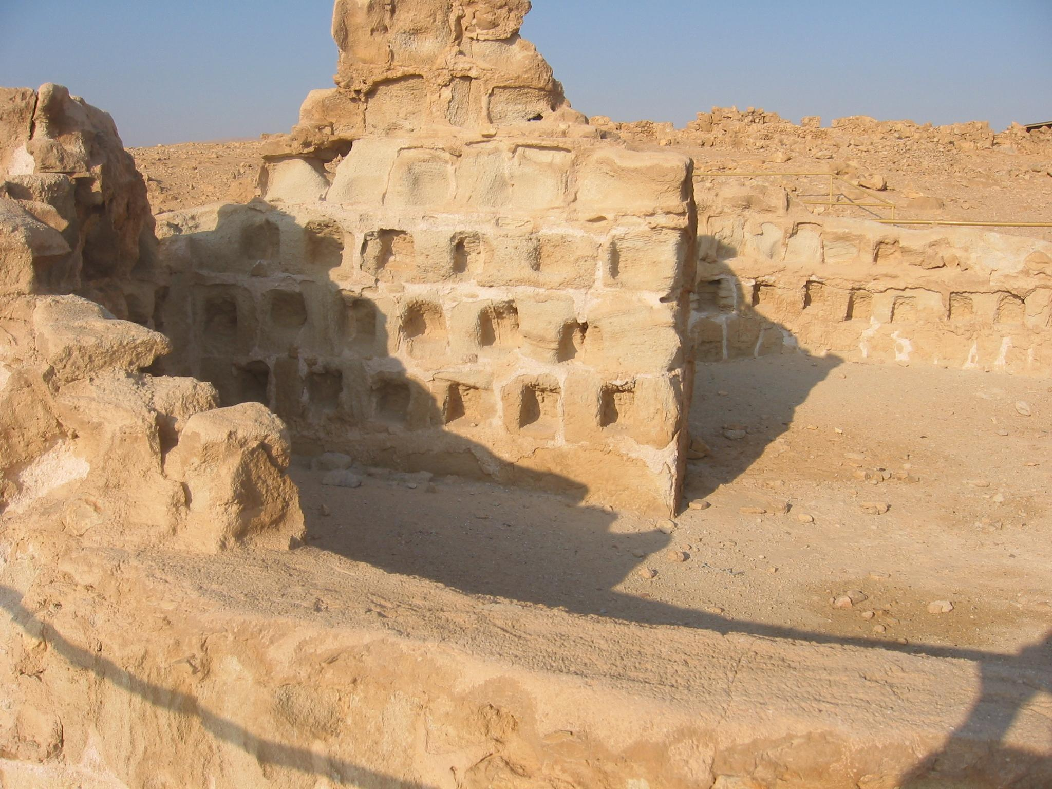 Dovecote at Masada, very large version (FDL-licensed; Elizabeth Thomas, eli at eli-nati dot com, December 2002)